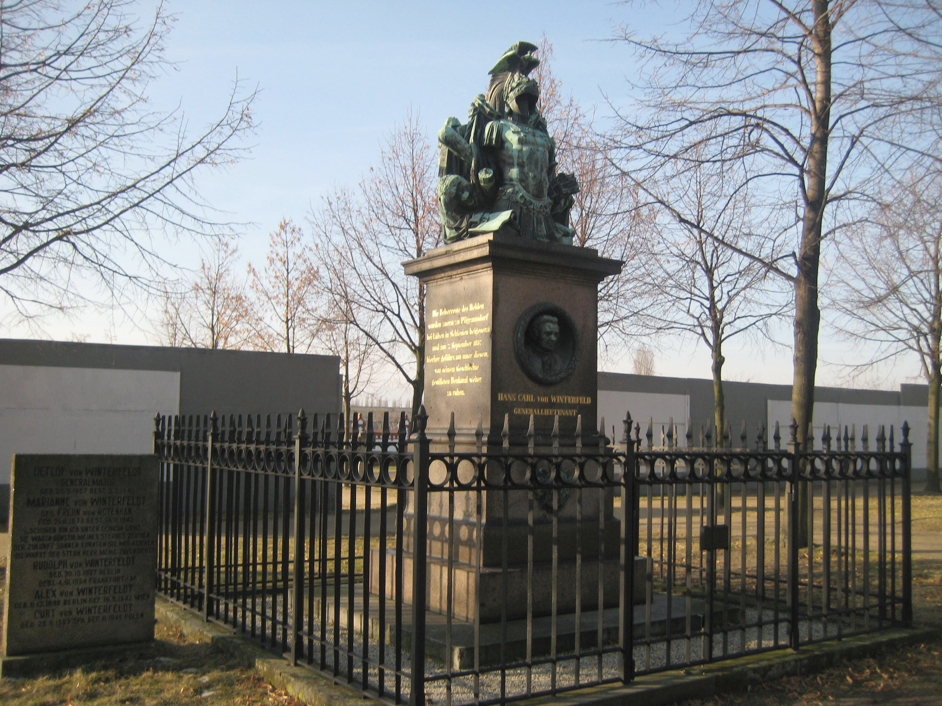 Grave of General Hans Karl von Winterfeldt at Invalidenfriedhof cemetery in Berlin, sculpted by Heinrich von Ledebur